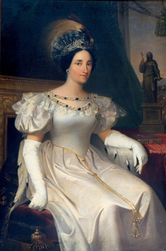 Maria Beatrice of Savoy, duchess of Modena